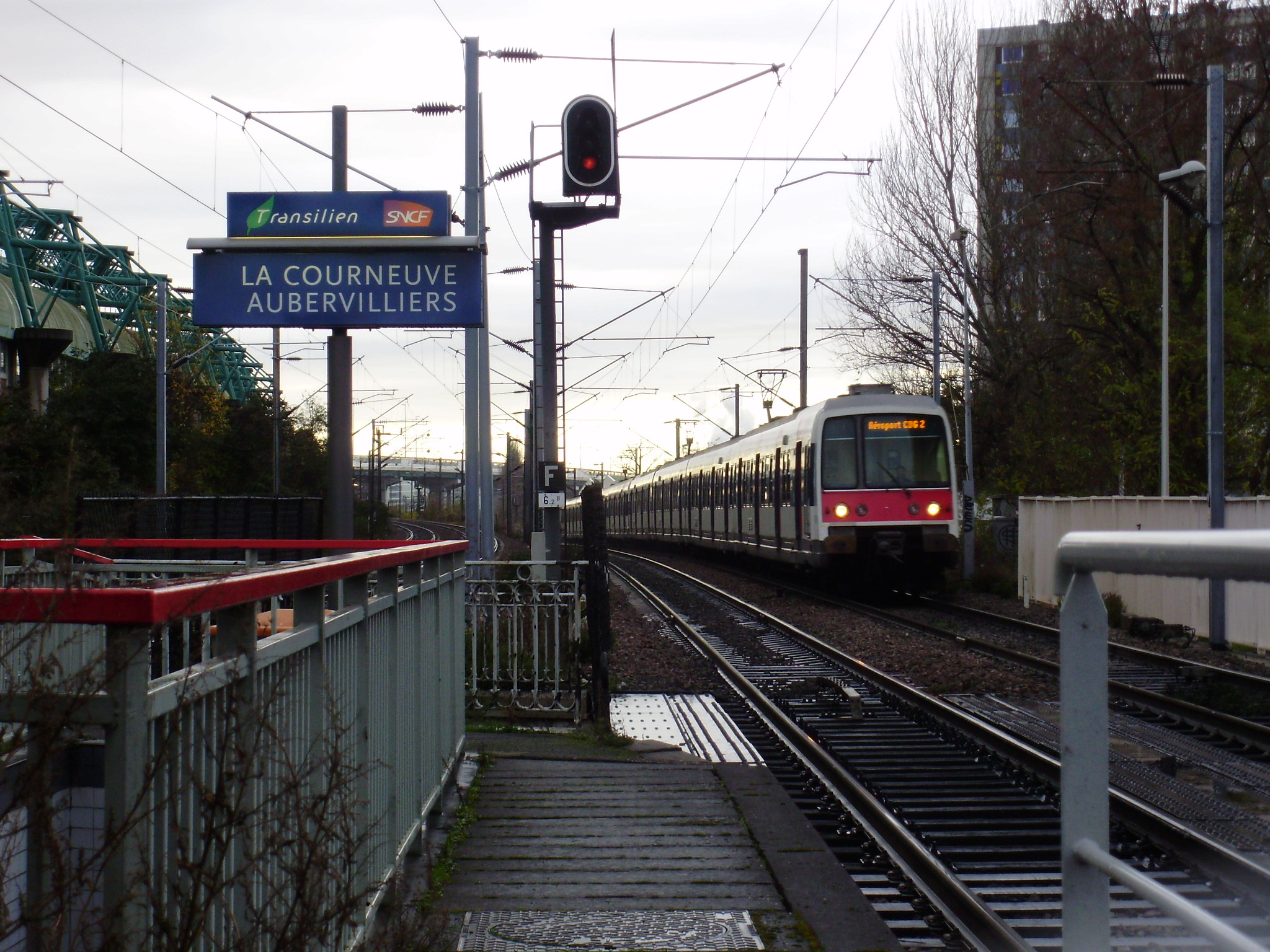 Arrival of a train at the La Courneuve - Aubervilliers station, in La Courneuve, Seine-Saint-Denis, France